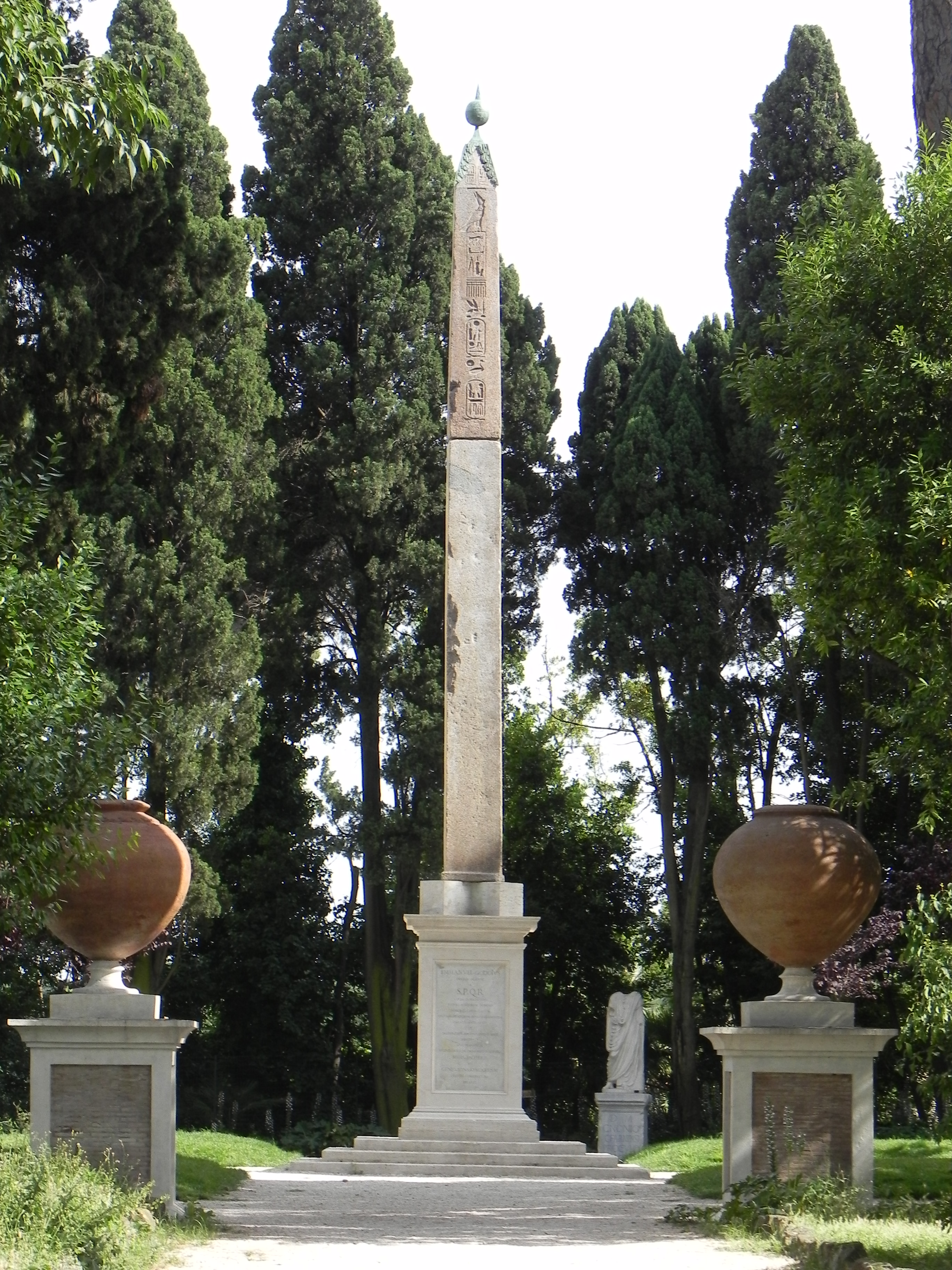 This is the ancient Egyptian obelisk located in Villa Celimontana, Rome, Italy. It is the smallest obelisk in Rome and was placed here in 1820 after it was lost, found, and rebuilt.